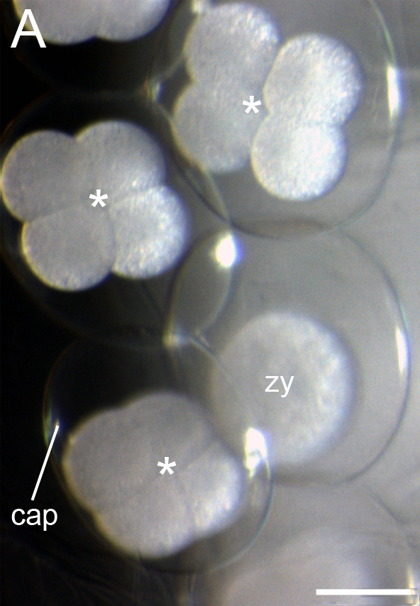 Photo of an embryo of Berghia stephanieae (Valdés, 2005) (synonym: Aeolidiella stephanieae')'. Scale bar is 100 μm. 2 h after oviposition (0% of development). zy = zygotes (asterisk) = four-celled embryos within the same egg mass cap = the capsule that surrounds each embryo.